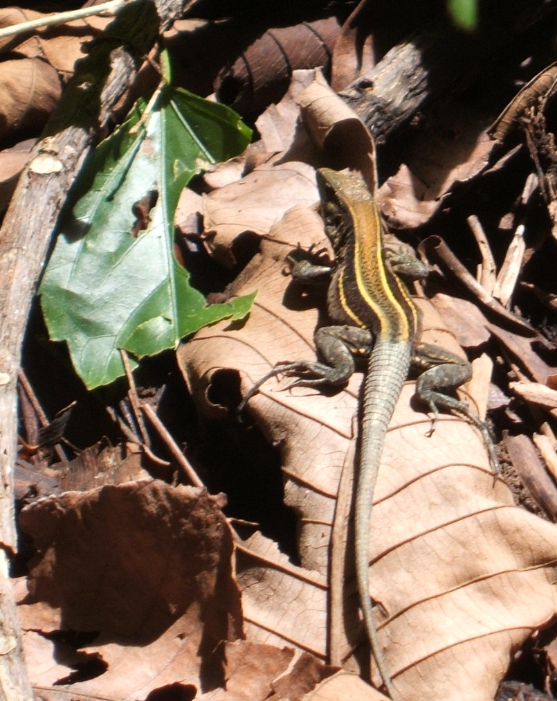 Ameiva quadrilineata on the Osa Peninsula in Costa Rica.